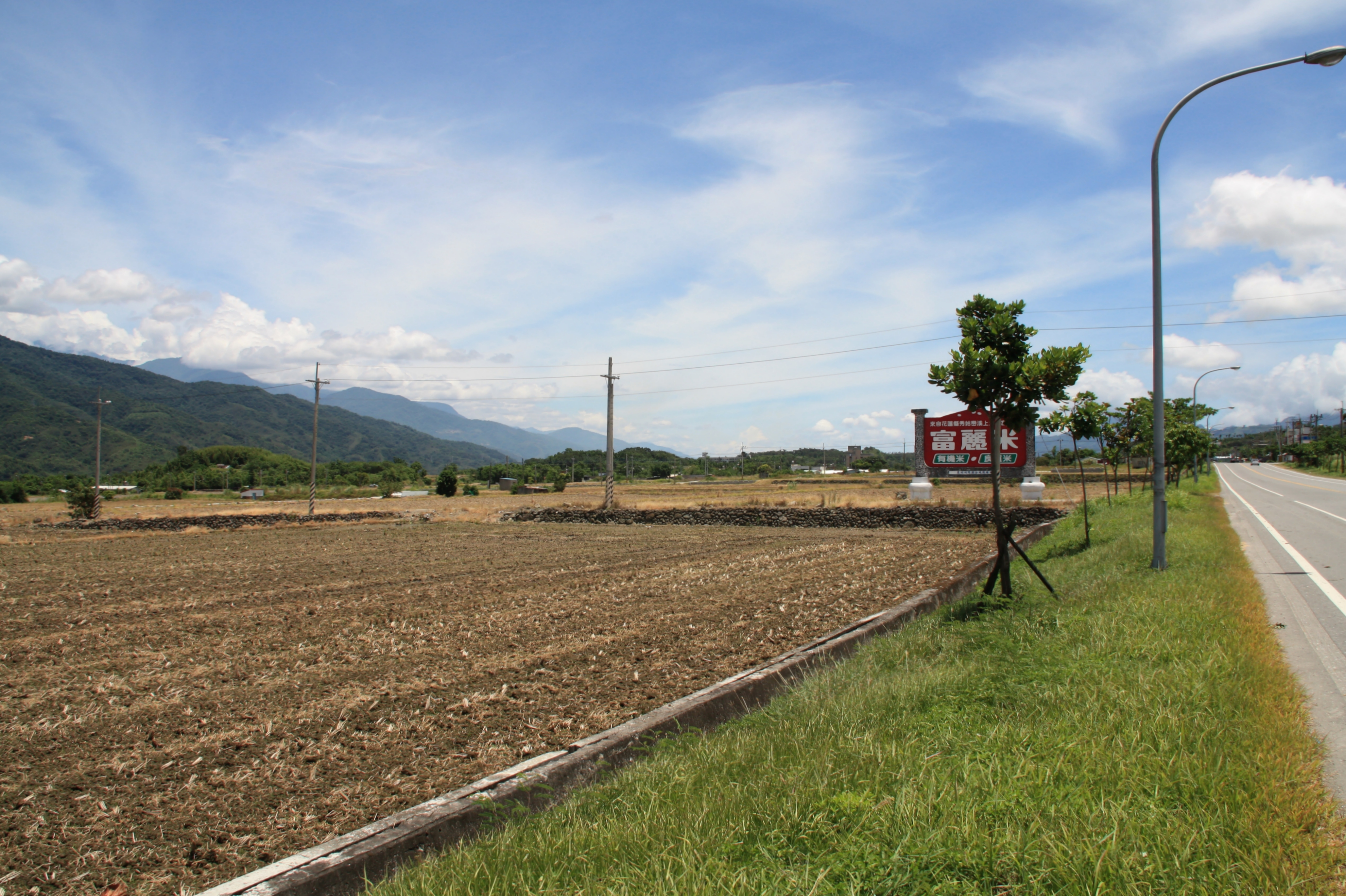 Hualien CountyFùLǐ Township